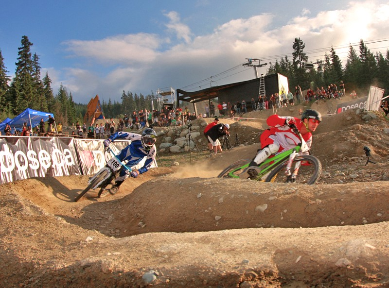 2009 CrankWorx Dual Slalom